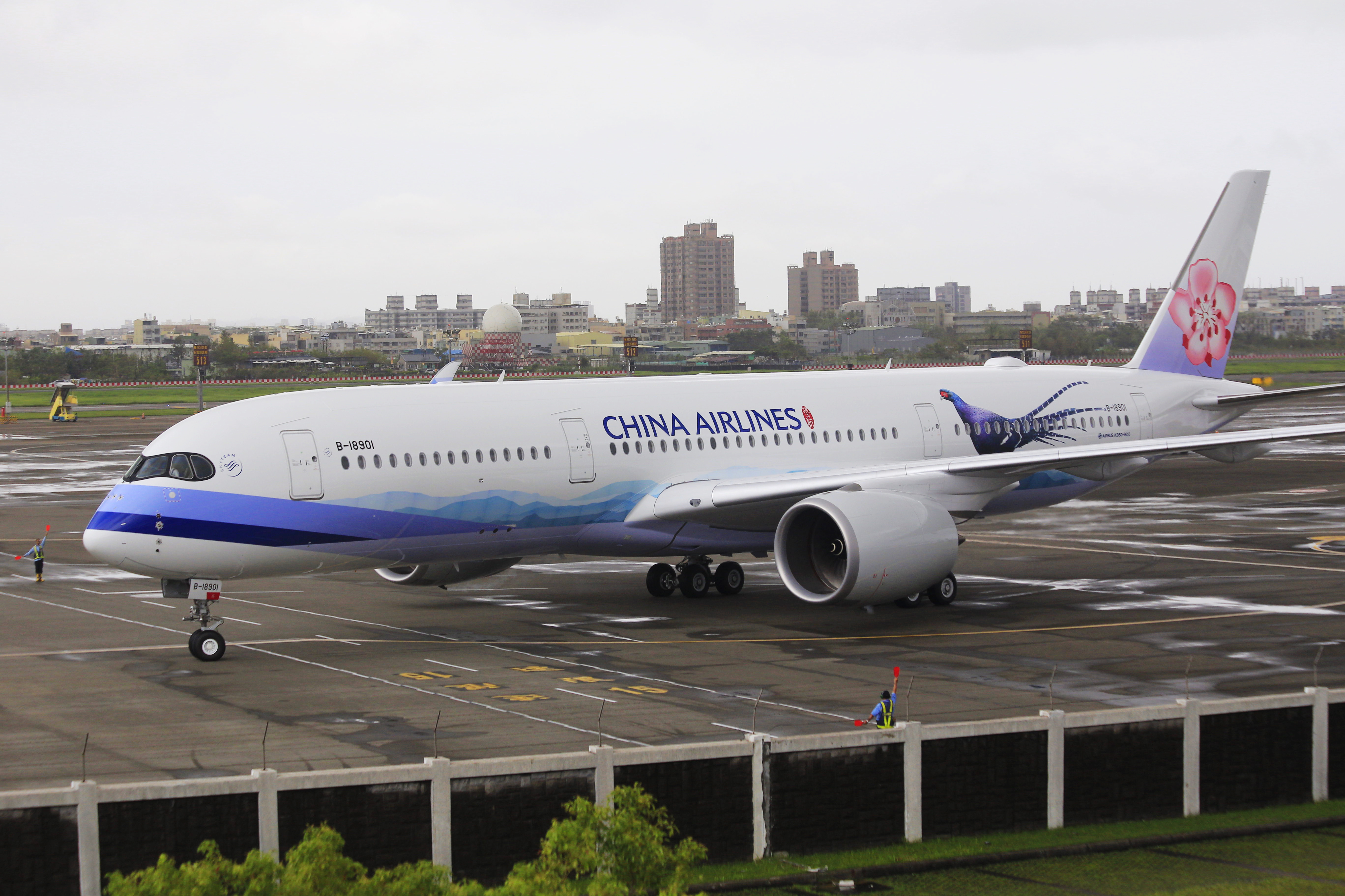 China Airlines Airbus A350-941